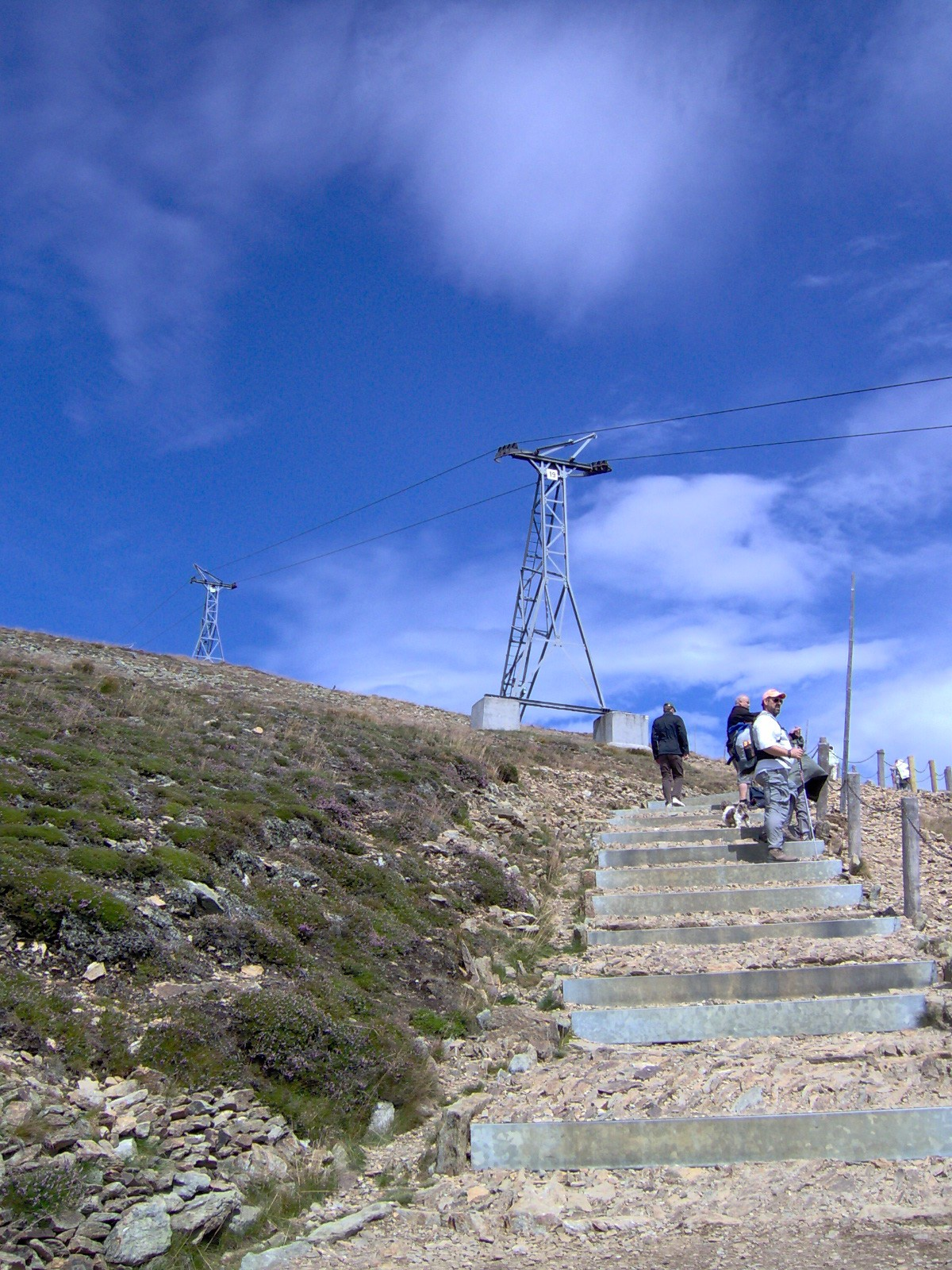 Chairlift Pec pod Sněžkou - Růžová hora - Sněžka, upper section